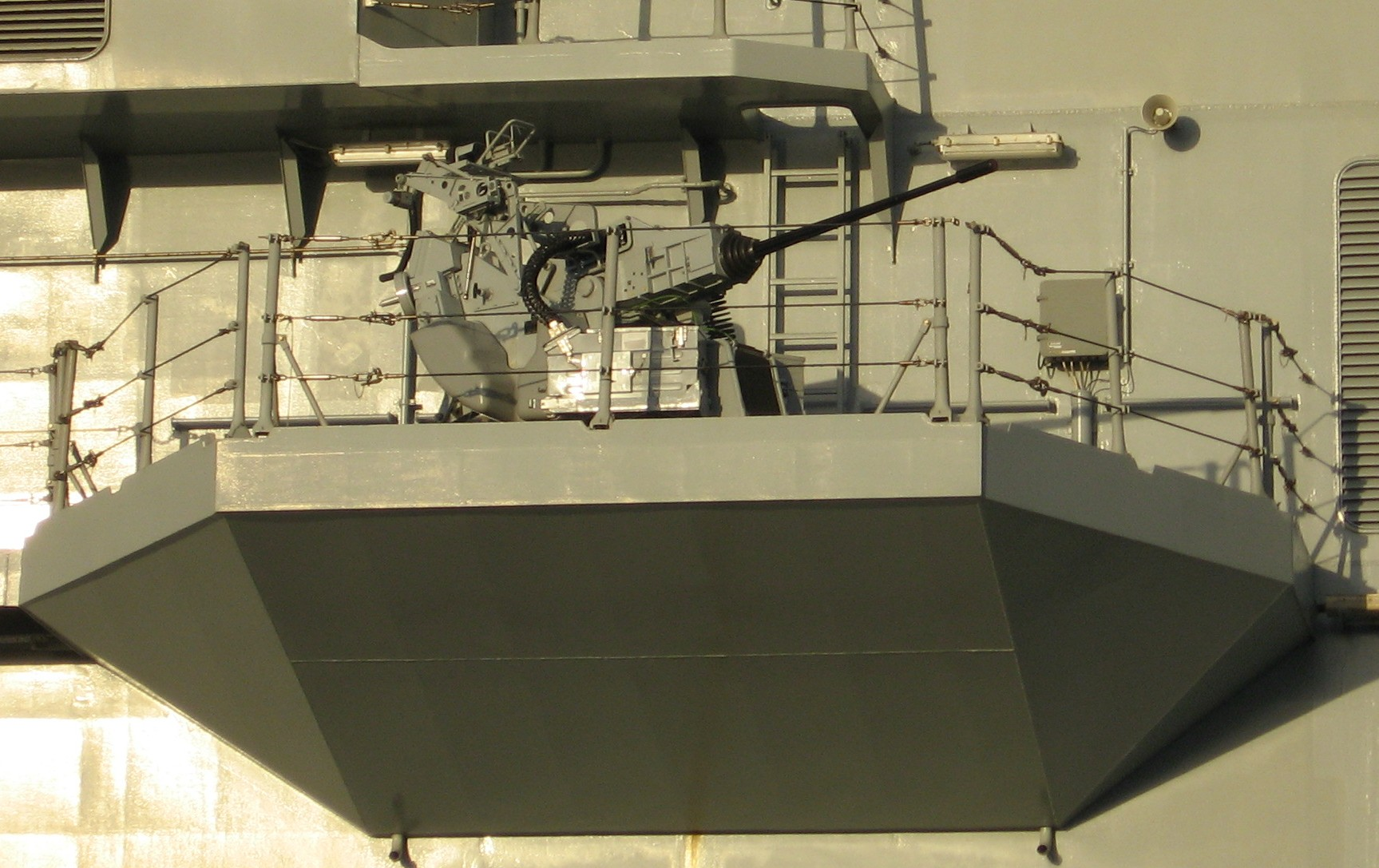 OTO Melara/Oerlikon 25 mm /80 gun aboard the aircraft carrier Cavour.